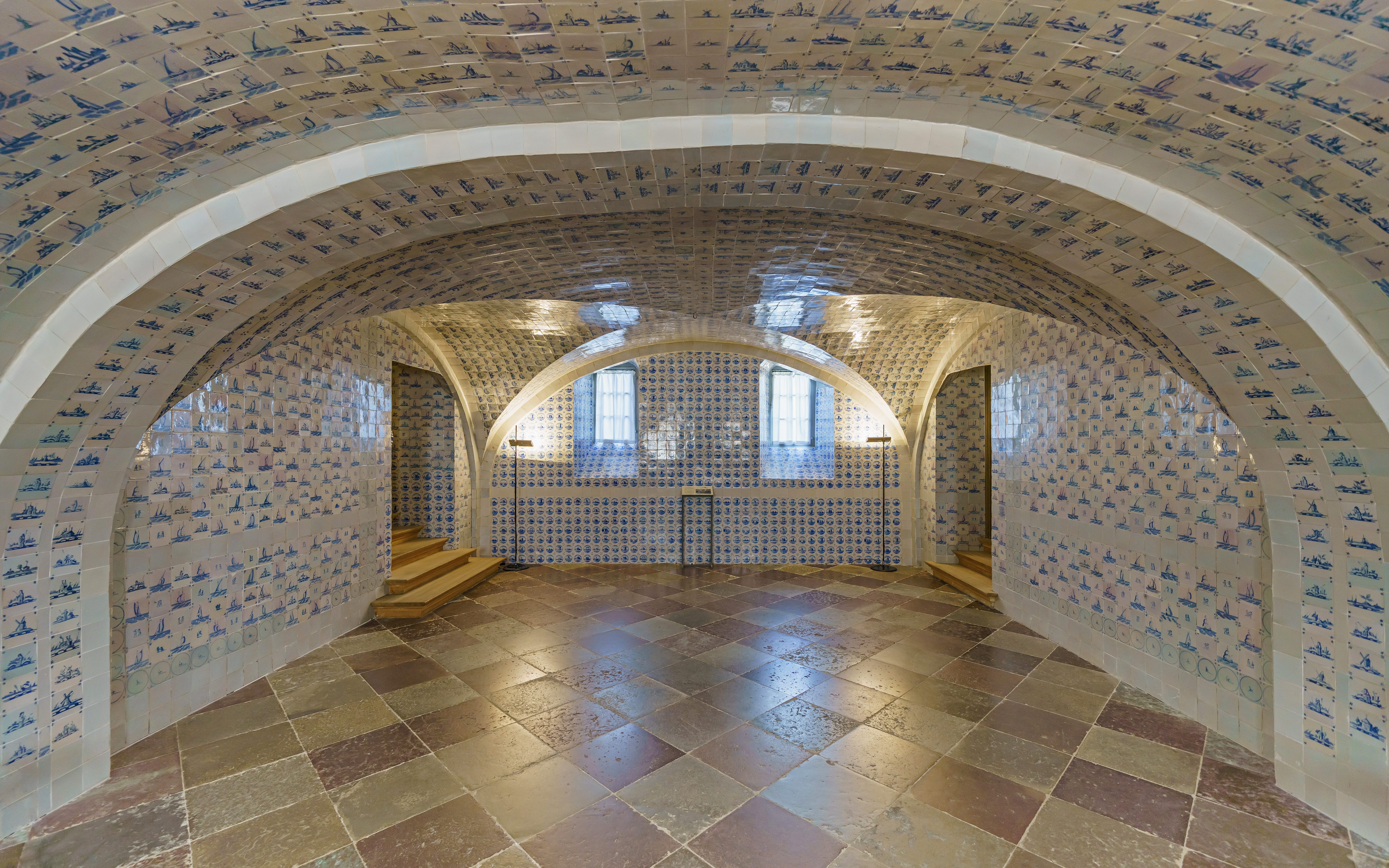 Interior of Caputh Castle near Potsdam, Germany